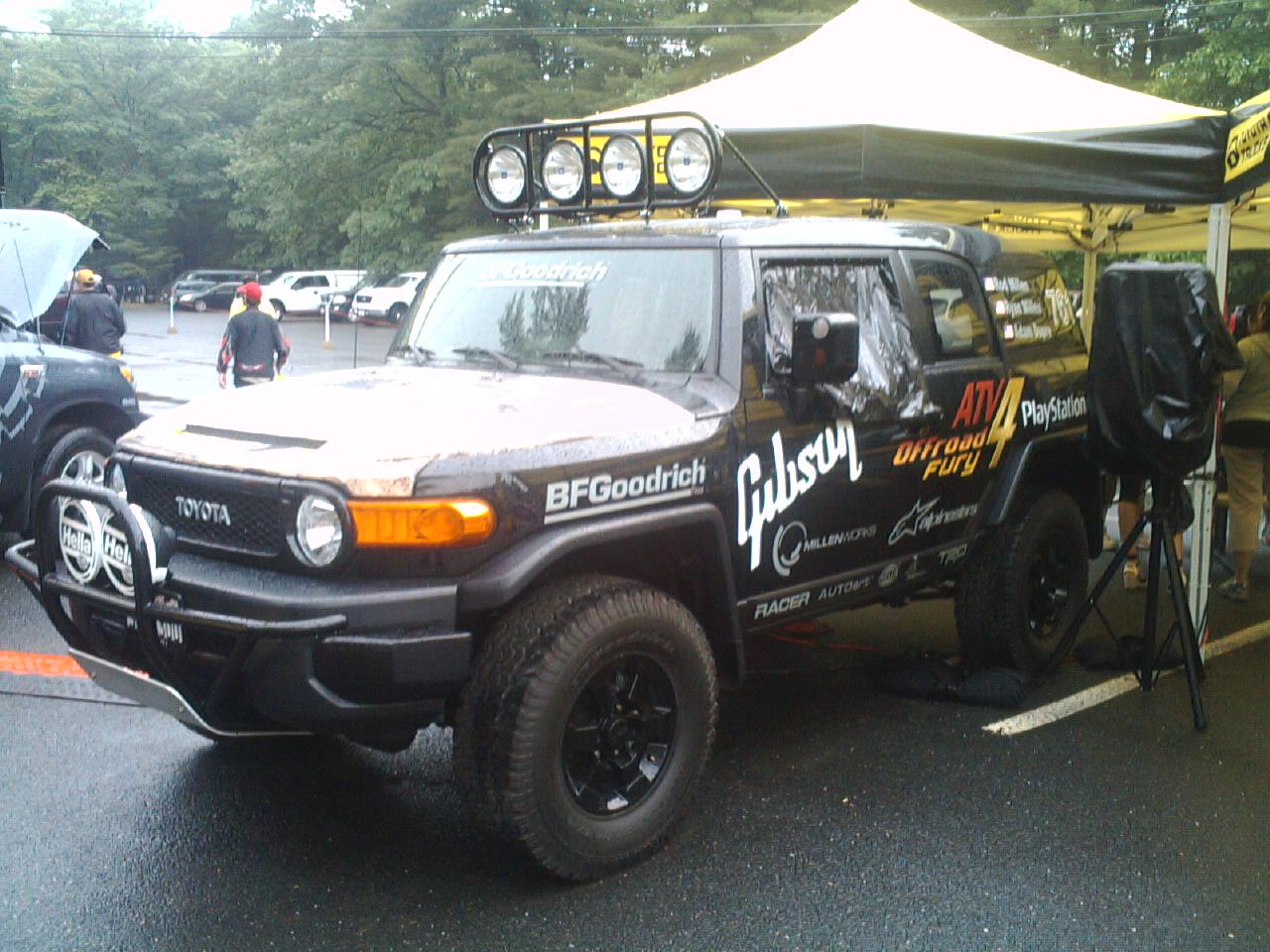 The MillenWorks/Team Toyota Baja 1000 race truck. In the 2006 Baja 1000, the MillenWorks team lost the race by 33 seconds, practically a photo finish in a race where the winner had a race time of 34 hours 36 minutes and 44 seconds.